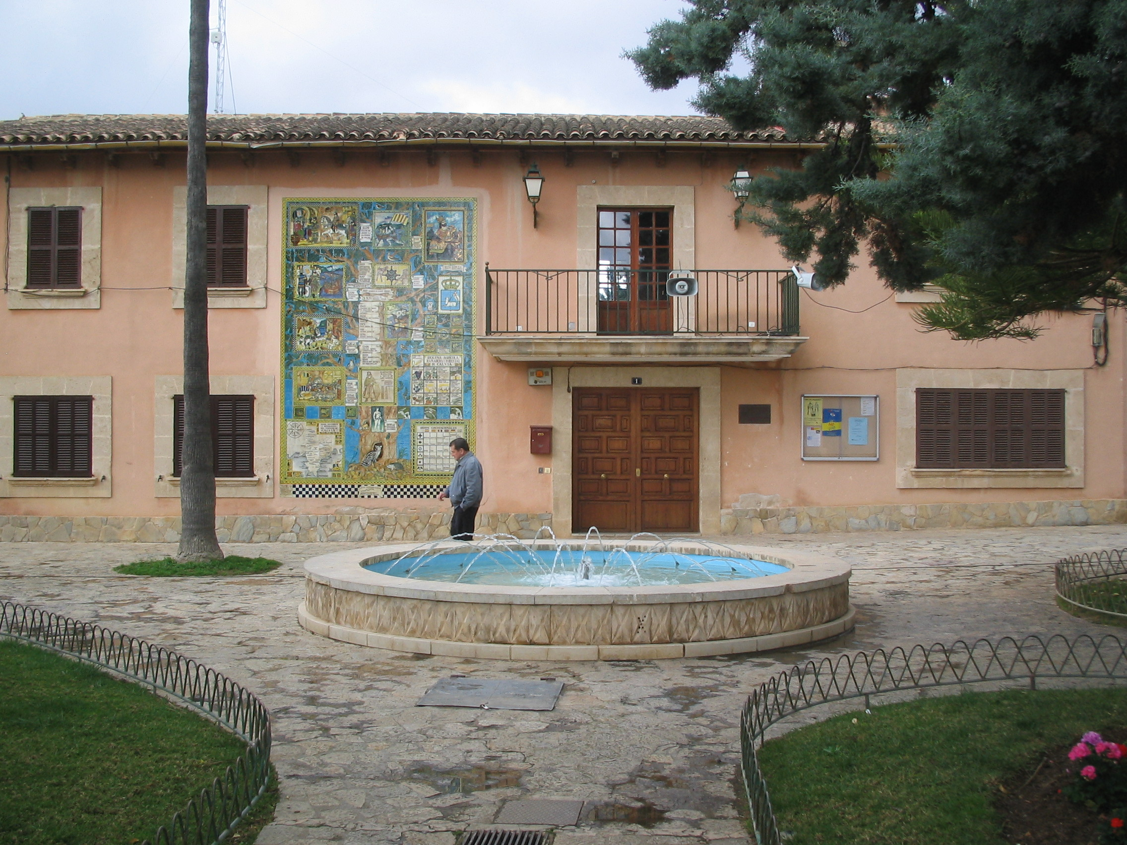 Old townhall of the spanish village Calvià in Mallorca, Spain.